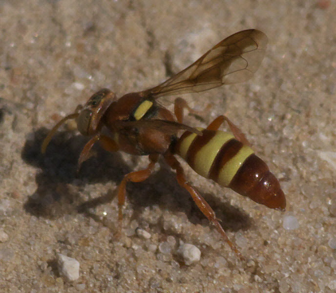 Hoplisoides tricolor, Tribe: Sand Wasps, Apoid Wasp, ID Confidence: 98